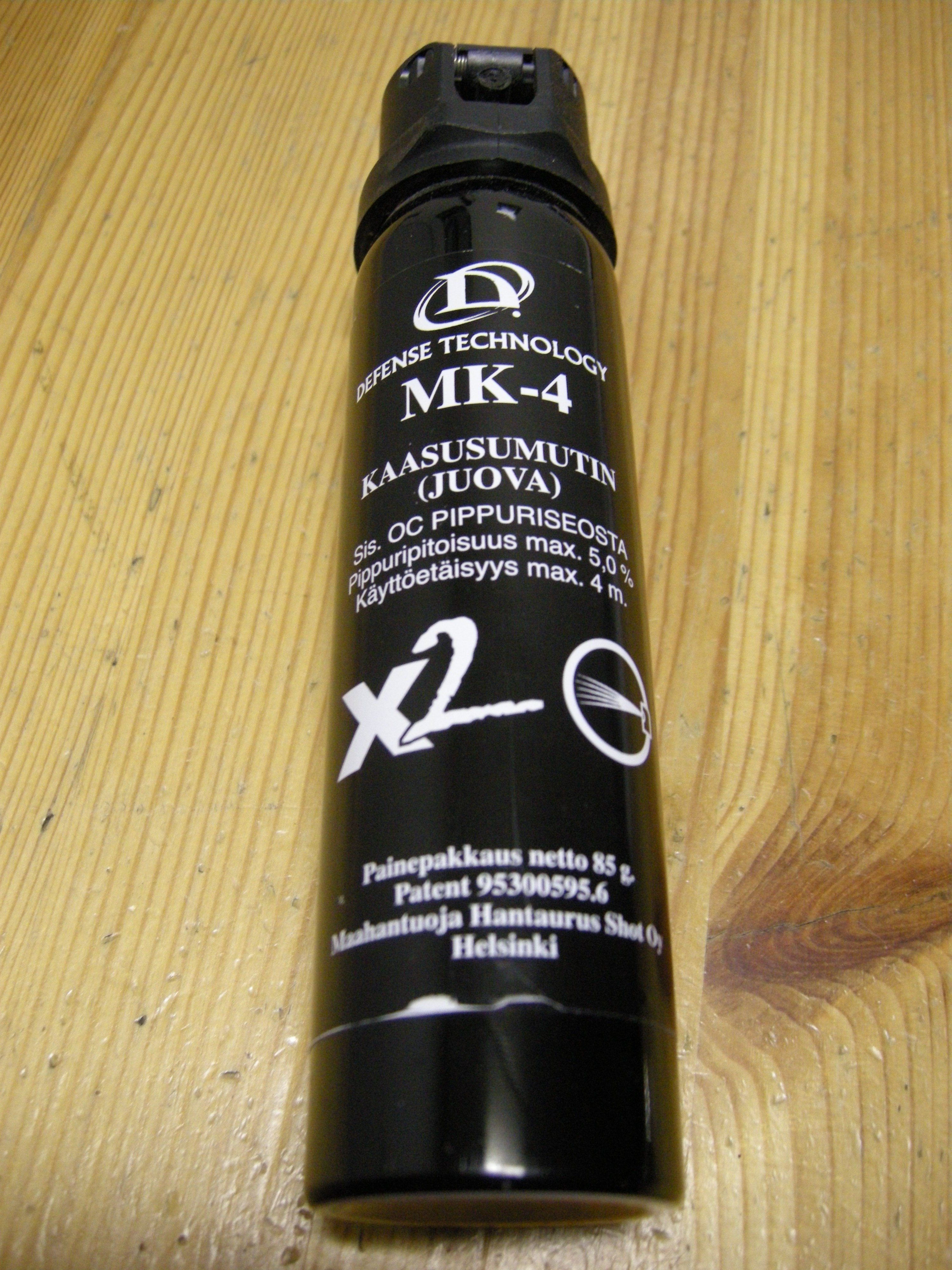 OC -Gas spray.